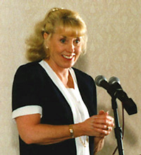 Betty Williams, 1976 Nobel Peace Prize co-recipient, co-founder of the Northern Irish Community of Peace People